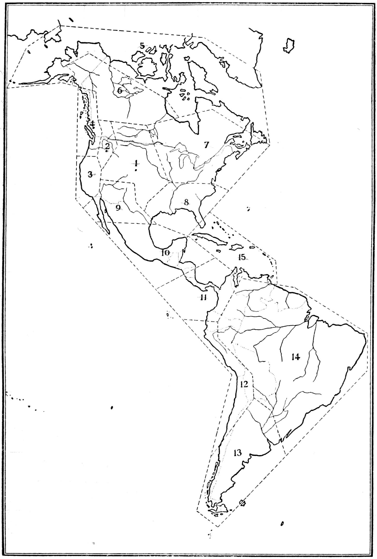 Culture Areas